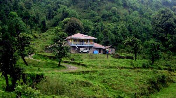 The trekkers hut in Gairibans, West Bengal, India